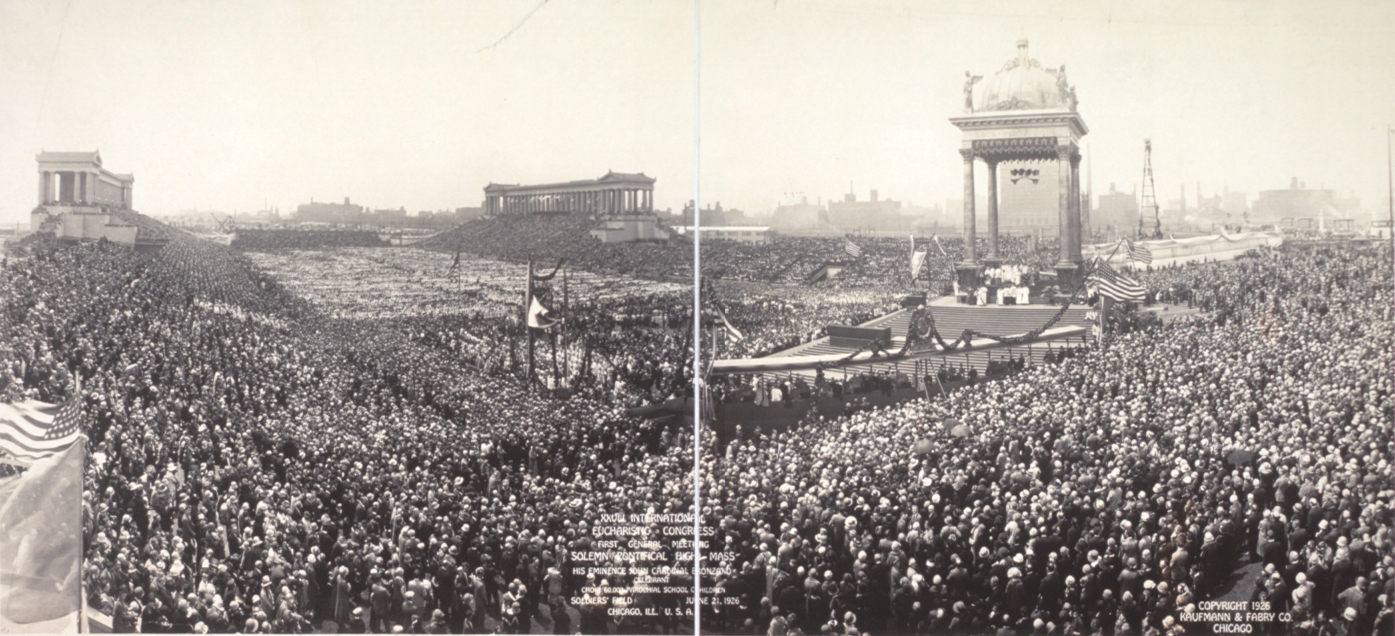 XXVIII International Eucharistic Congress, First General Meeting, Solemn Pontifical High Mass; His Eminence John Cardinal Bonzano, Celebrant; Choir, 60,000 parochial school children; Soldiers' Field, June 21, 1926, Chicago, Ill., U.S.A.